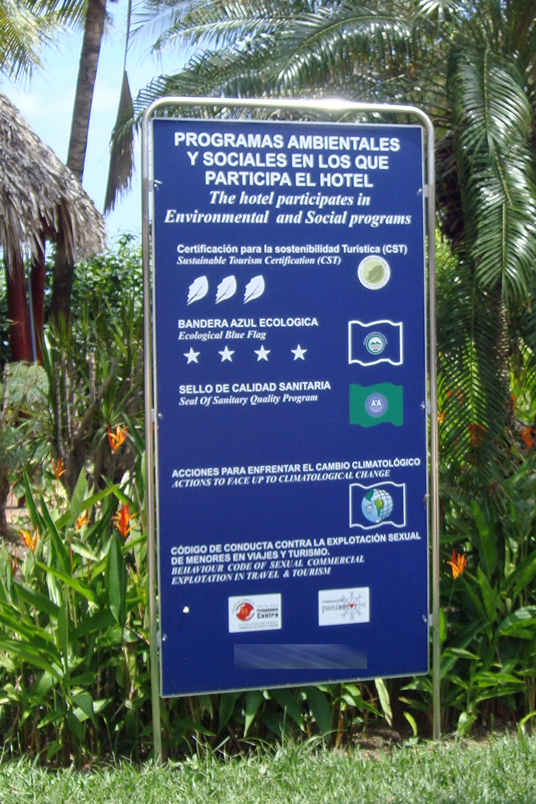 Hotel sign in Costa Rica showing the Voluntary Certification Programs it has passed or the hotel is associated with. Langosta Beach, Guanacaste. The hotel name was blured intentionally.